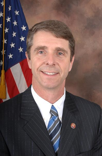 Rob Wittman, member of the United States House of Representatives.